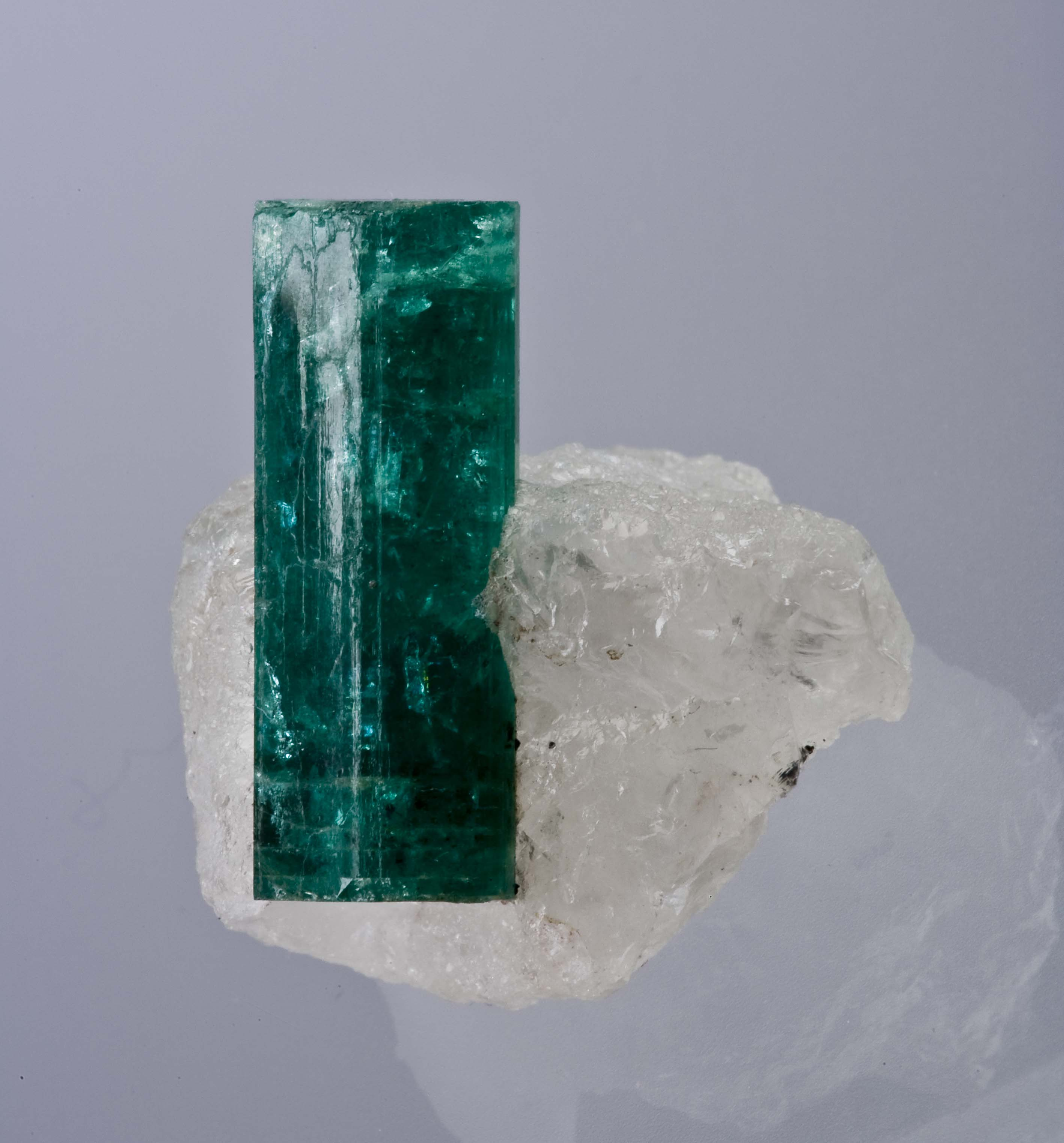 Beryl, Quartz Locality: Kagem Emerald Mine, Kafubu Emerald District, Ndola, Copperbelt Province, Zambia (Locality at ) Size: miniature, 3.0 x 2.7 x 2.6 cm Emerald on Quartz In some ways, this was my favorite of the emeralds on sale from the first specimen production out of this world-famous gem mine, for its overall quality and aesthetics. The knoll of quartz matrix features a SHARP and VERY EQUANT, 2.6-cm-long emerald perched atop its natrual pedestal. Remarkably, it was excavated without it falling out and needing repairs. It is nestled, still, securely in the quartz which once enclosed (and protected!) the crystal. The top termination is very fine and sharp. The lower termination is not lustrous, but is nevertheless complete. It has a consistent , rich, evergreen color, darker than most Colombian emeralds and so distinct. It has better lustre and sharper form, than most Kagem pieces I have now seen. For a thumbnail-sized specimen (or it could display on a little pedestal as a small miniature), it was the best in the size class that I have seen for sale. Professional photos by Joe Budd. THIS SPECIMEN IS FEATURED ON THE ARTICLE ON THIS FIND, IN MINERALOGICAL RECORD JAN-FEB 2010, PAGE 64